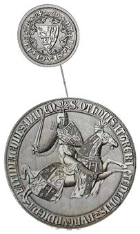 Otto IV, Count of Burgundy